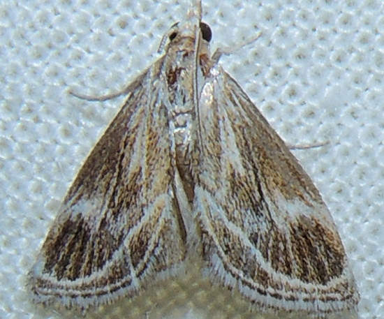 7/29/13 Franklin County Photo and ID thanks to Jack Foreman